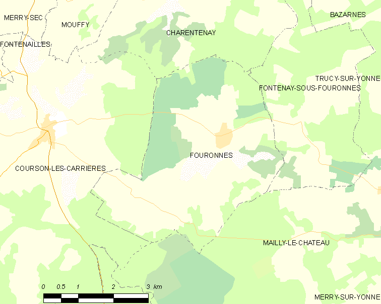 Map of French municipality Fouronnes